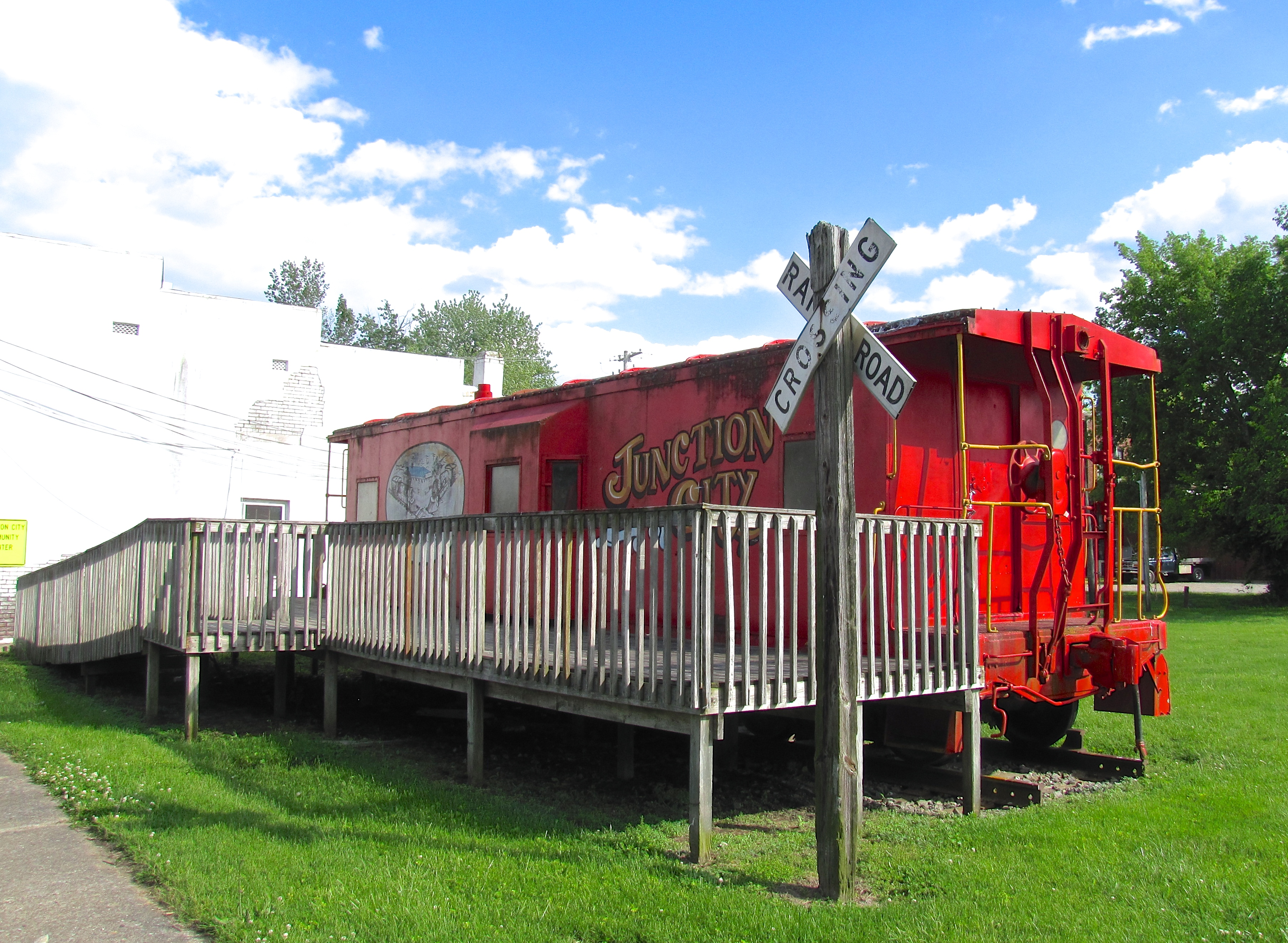 Caboose in Junction City, Kentucky, United States.